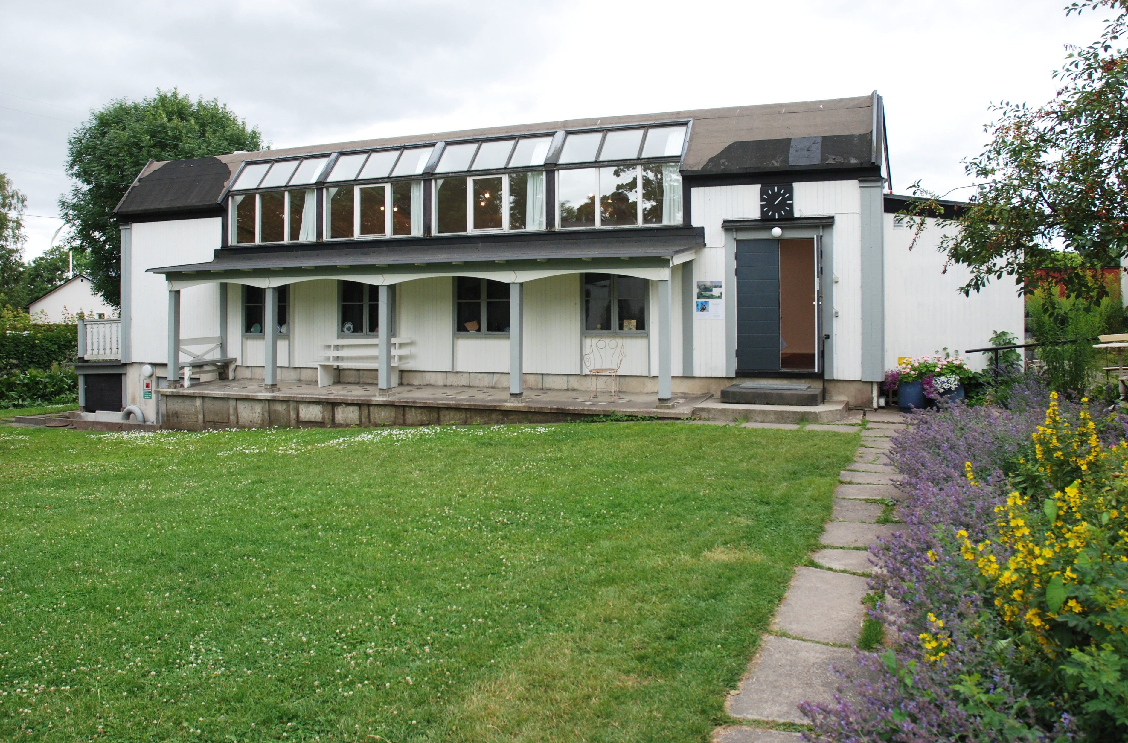 Olle Nyman´s studio at Saltsjö-Duvnäs, Sweden